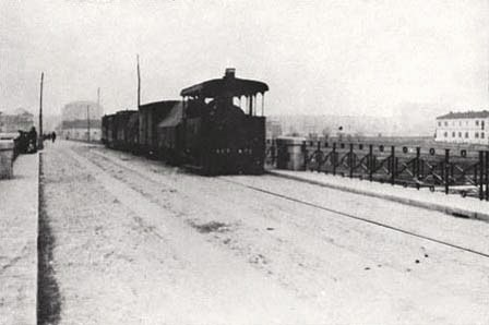 Vercelli, steam tram on the Sesia bridge